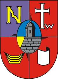 coat of arms of Zolochiv (Ukraine)